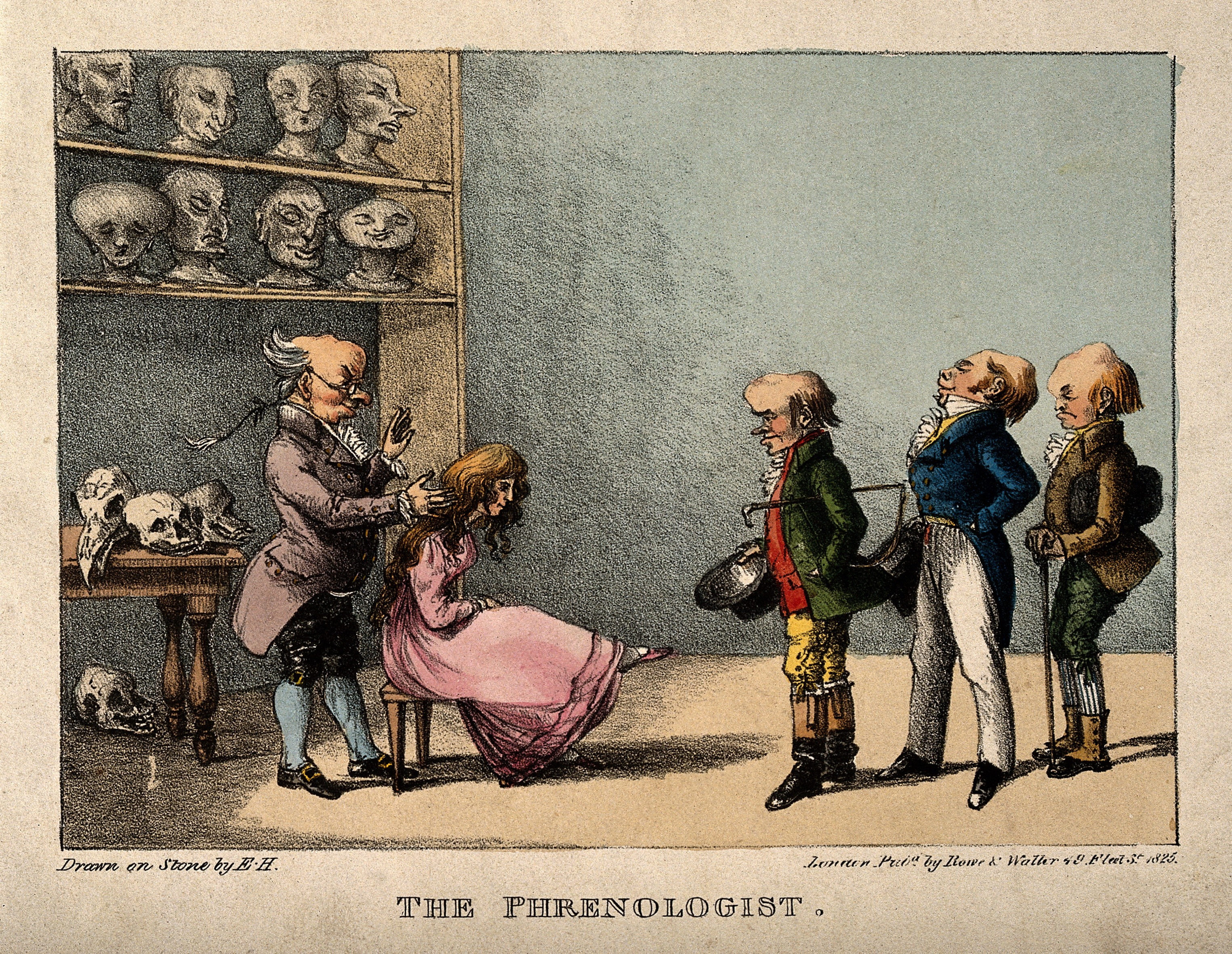 Topic-LCSH: Phrenology. Head. Skull. Costume -- History -- 19th century. Genre/Technique: Caricatures. Lithographs. Subject name: Gall, F. J. (Franz Joseph), 1758-1828.